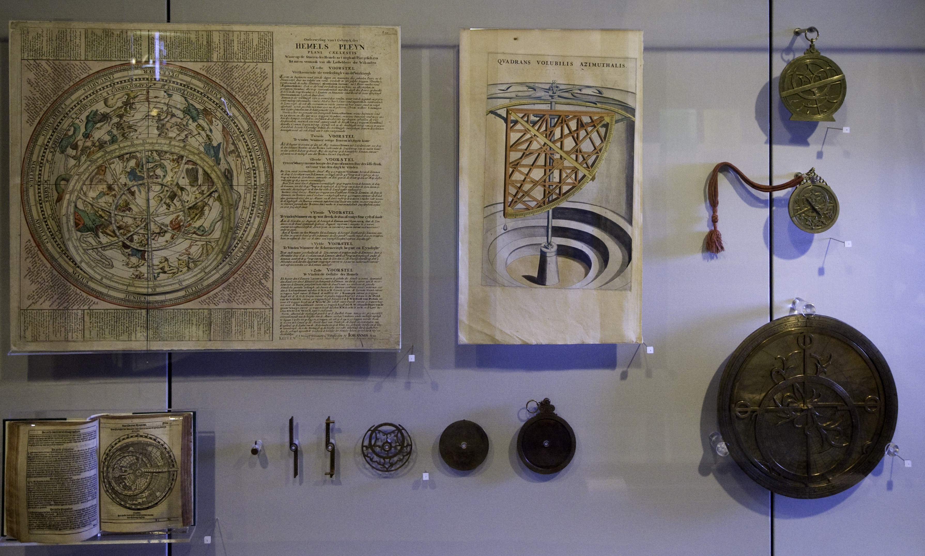 Museum Boerhaave walk-through